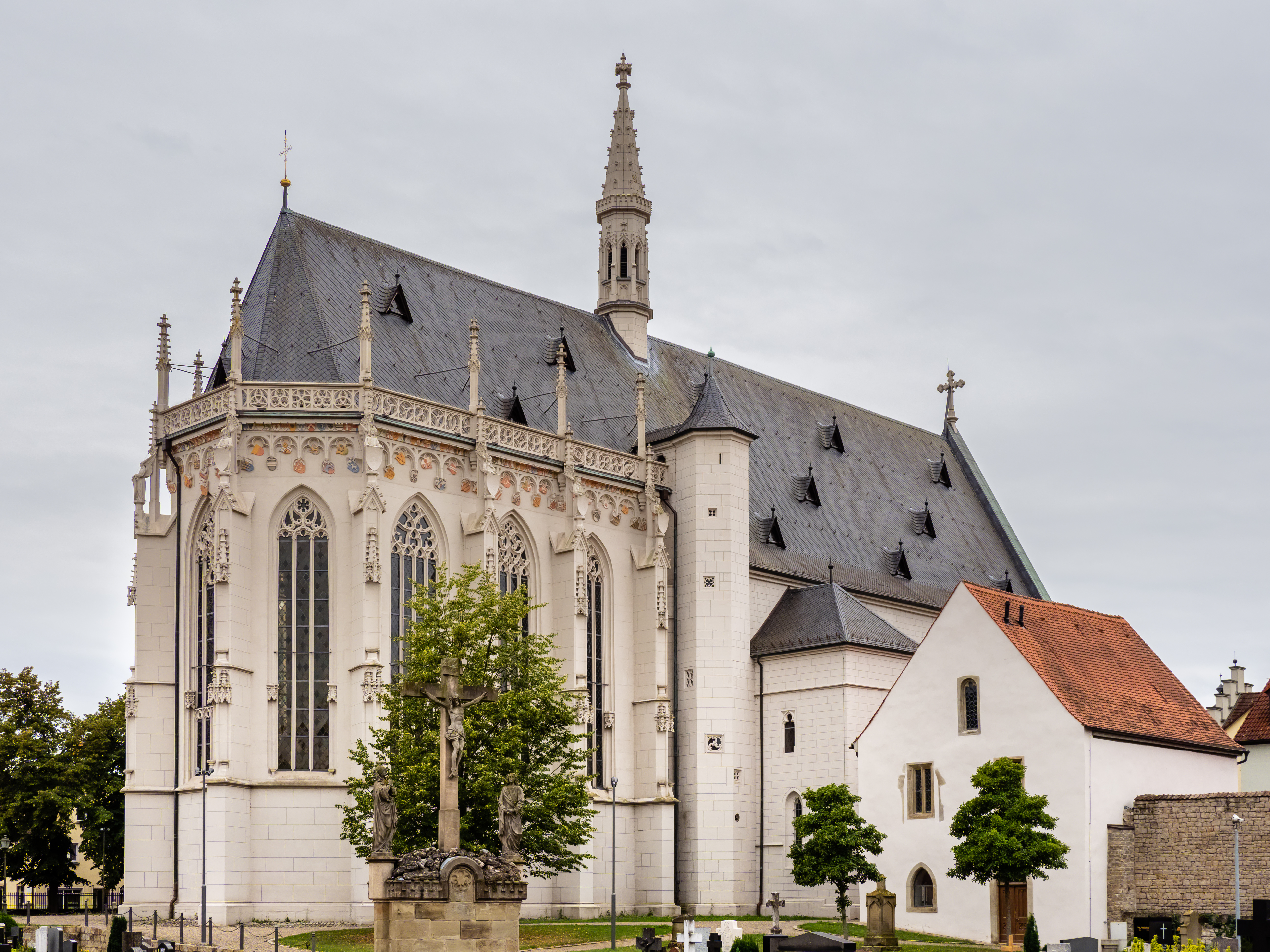 Ritterkapelle in Haßfurt am Main